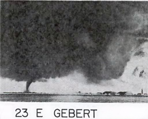 Image of the 1957 Fargo, North Dakota tornado as it neared Hector International Airport on June 20, 1957.